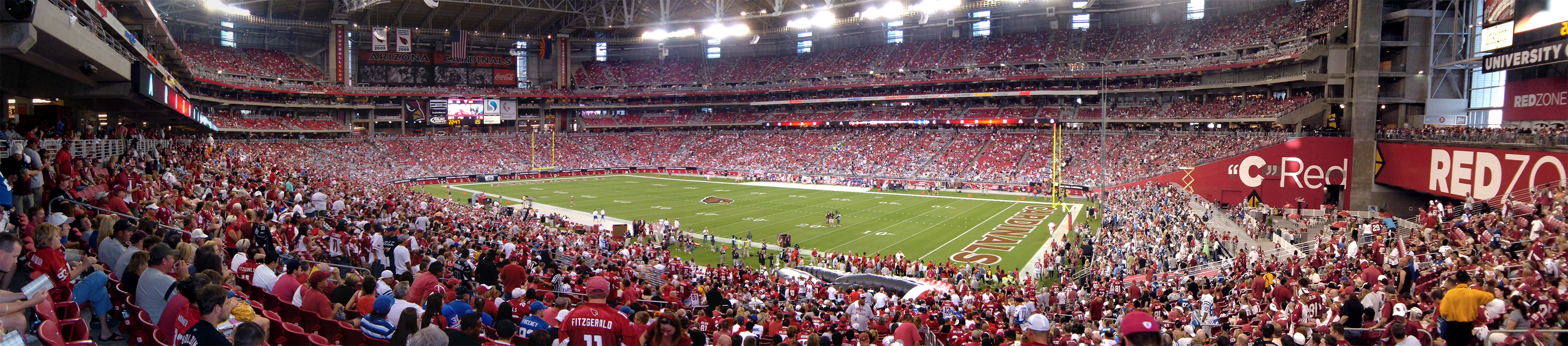 A panoramic shot of the inside of University of Phoenix Stadium (or Cardinals Stadium) in Glendale, Arizona, taken before the start of the Arizona Cardinals Week 3 game against the Indianapolis Colts on 27 September 2009. It depicts the interior of the stadium from the uppermost row of the lower level and is facing in a generally north by northeast direction (due to the geographic orientation of the stadium.) This panoramic shot was stitched together from four separate photos and edited for even color balance and contrast and (mostly) smooth transitions using Photoshop.